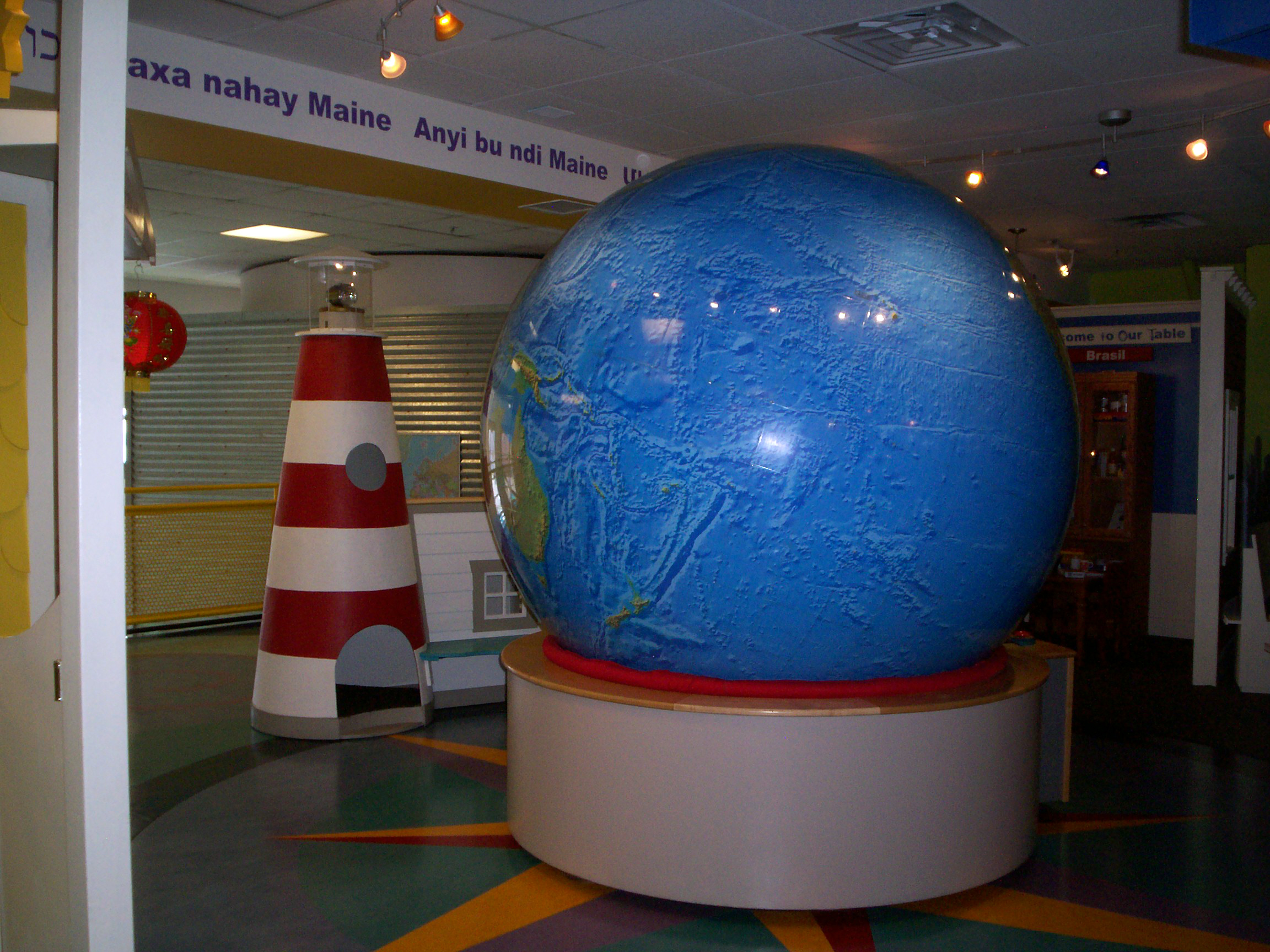 We Are Maine CMTM